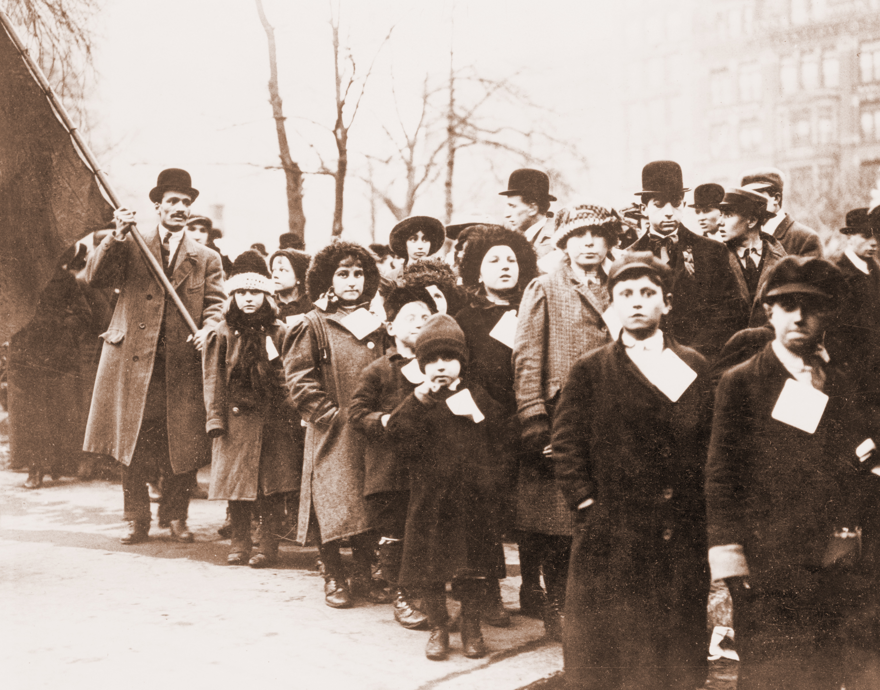 Children of Lawrence, MA strikers sent to live with sympathizers in New York City during the work stoppage 1912 news photo, ex-Bain News Service Digitized from the original negative by the Library of Congress Digital ID: cph 3c18677 Source: b&w film copy neg. Reproduction Number: LC-USZ62-118677 (b&w film copy neg.) Repository: Library of Congress Prints and Photographs Division Washington, D.C. 20540 USA LoC: "RIGHTS INFORMATION: No known restrictions on publication." Additional digital editing by Tim Davenport for Wikipedia, no copyright claimed